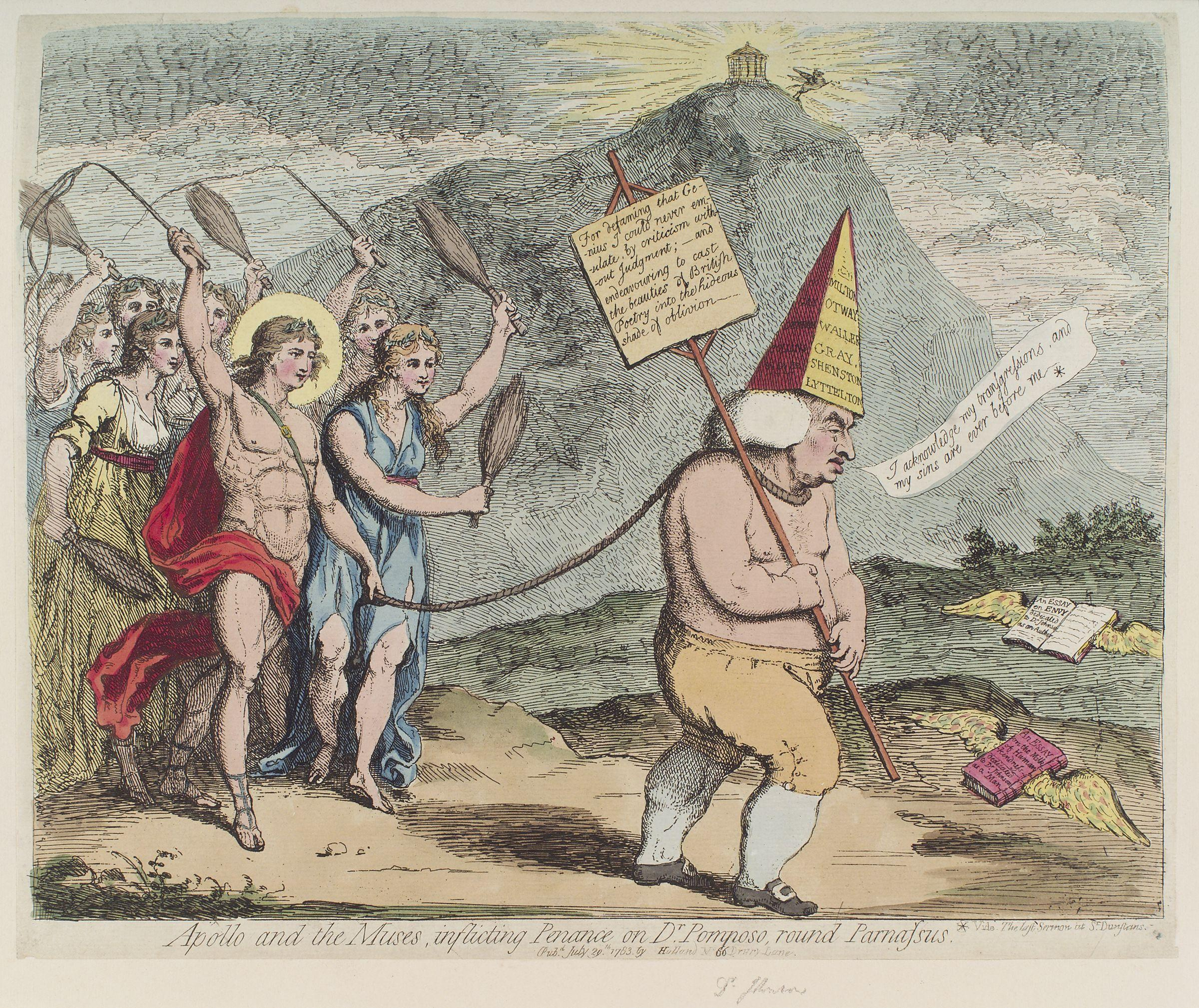 Apollo and the muses, inflicting penance on Dr Pomposo, round Parnassus' (Samuel Johnson), by James Gillray (died 1815), published 1783. All images in this batch have been confirmed as author died before 1939 according to the official death date listed by the NPG.